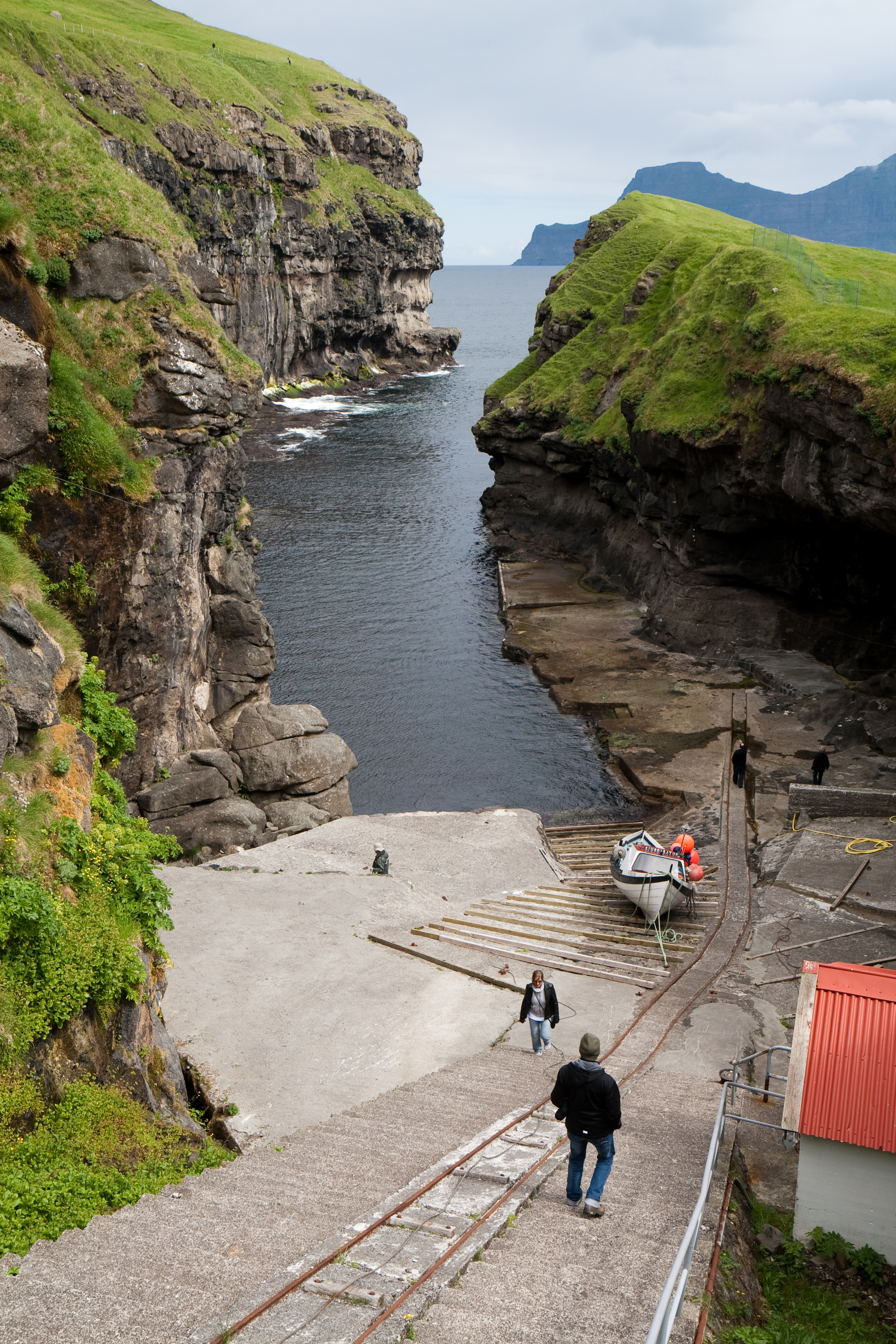 Looking down the harbour in Gjógv.